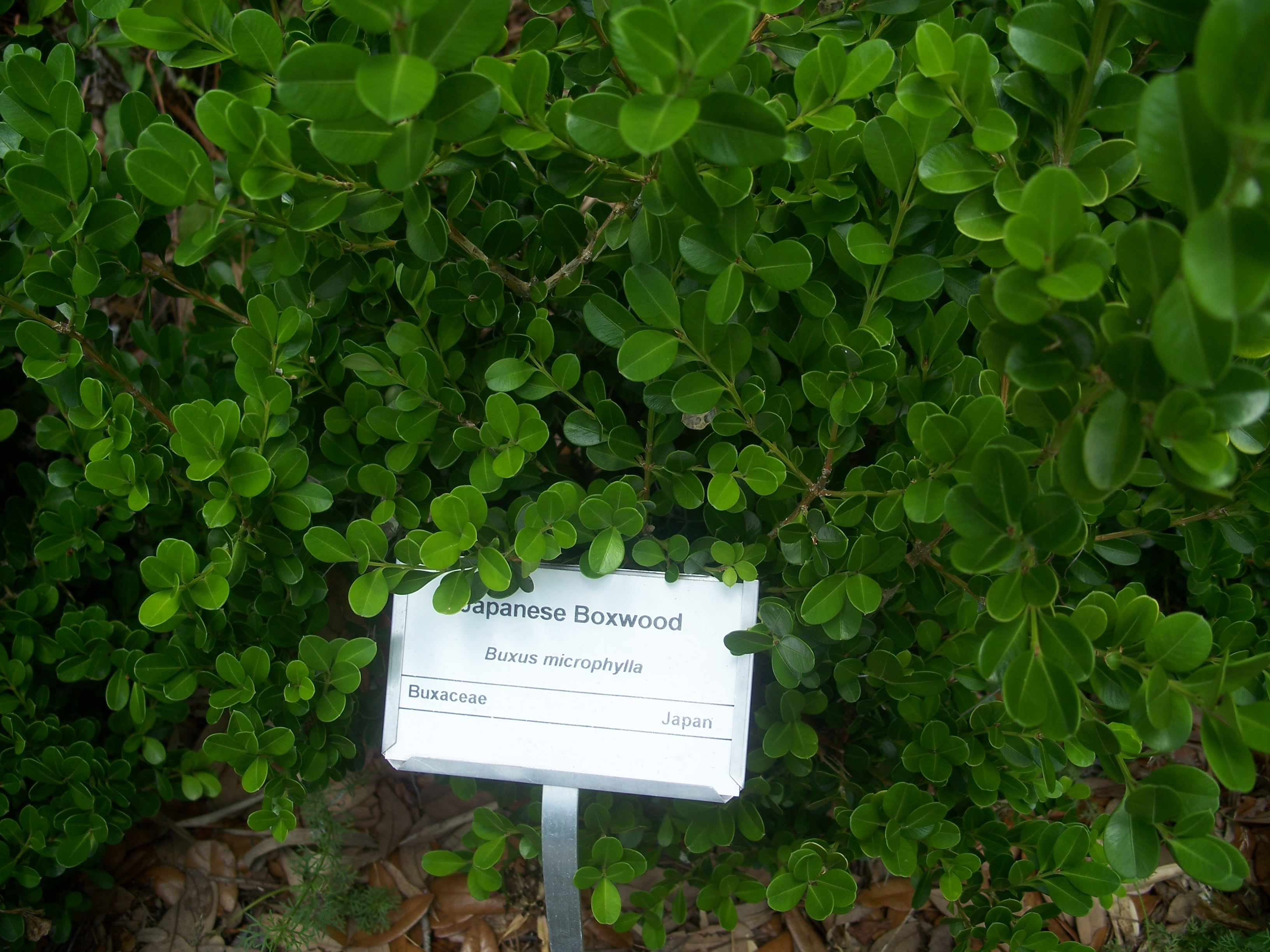 Gainesville, Florida: Kanapaha Botanical Gardens: Japanese boxwood (Buxus microphylla)